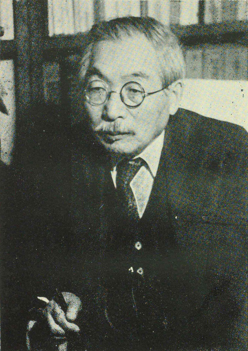 Portrait of Sasaki Soichi (佐々木惣一, 1878 – 1965)